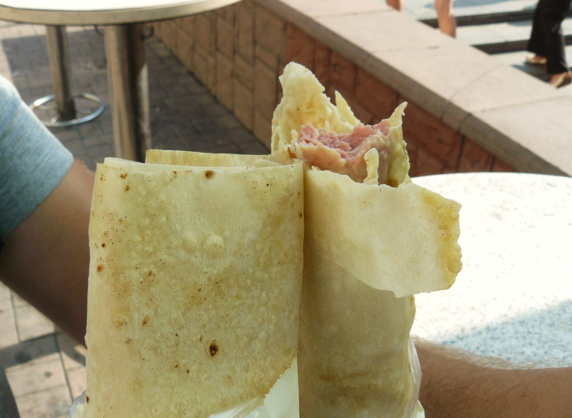 Ukrainian hot-dog in tortilla. Made in Donetsk.